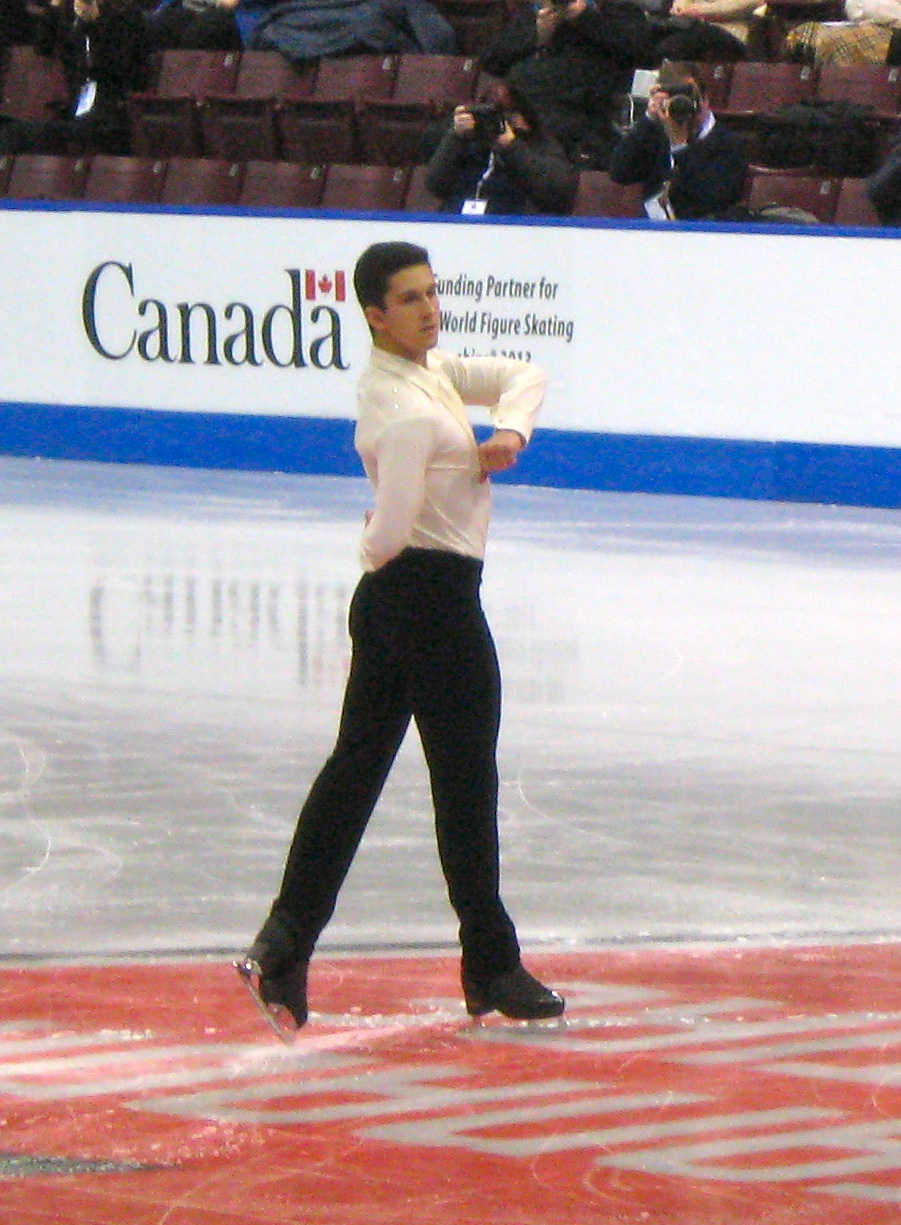 Canadian figure skater Liam Firus performing his short program during the 2013 Canadian Figure Skating Championships at the Hershey Centre in Mississauga, Ontario